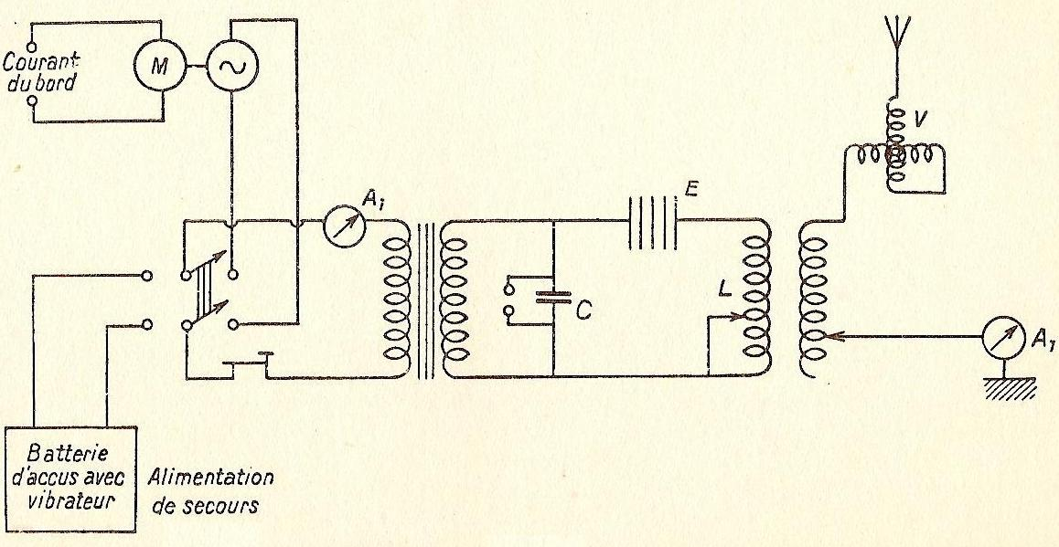 A marine spark-gap transmitter, used on ships during the first 2 decades of the 20th century. The transformer that produced the high voltage required alternating current (AC) which was generated from the ship's DC power by a motor-alternator set; a DC electric motor turning the shaft of an alternator which producted AC. The DC current that powered the motor-alternator was generated by the ship's engines, which in the event of the ship sinking would stop working, so the transmitter was required to have a backup battery power source, which was located on the higher decks. This used a vibrator to convert the DC battery current to AC needed by the transmitter.